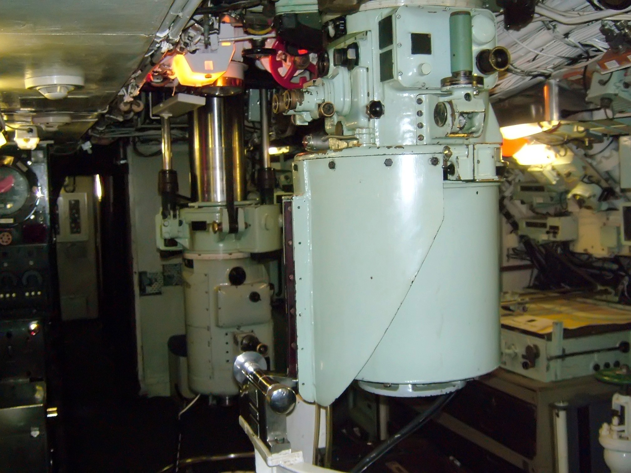 Interior of HMS Ocelot, submarine,museum ship in Chatham Dockyard, The two periscopes, the larger search periscope, and the smaller attack periscope used to position the submarine so it was pointing directly at the target before the torpedos were launched. - Google Maps - Google Earth